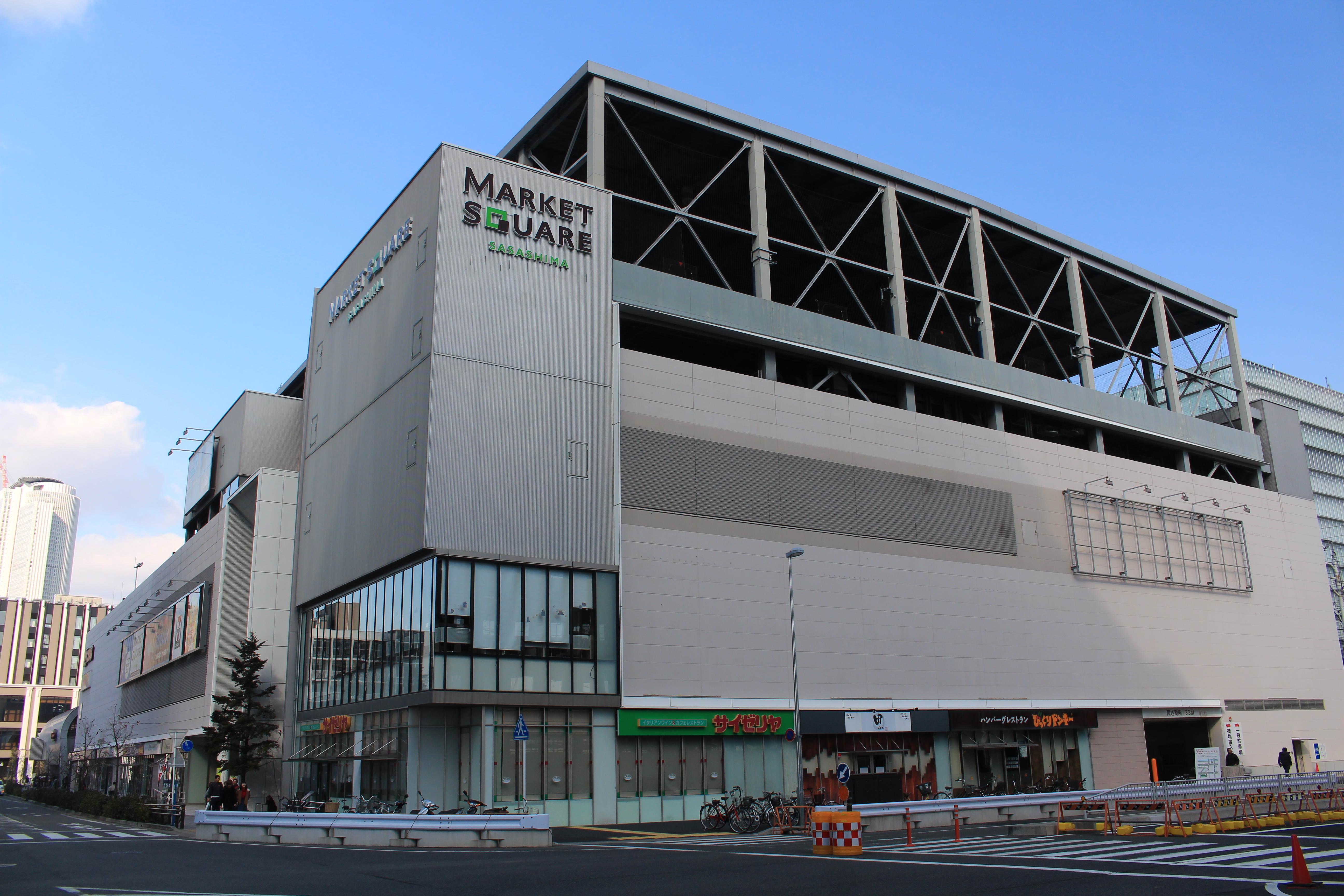 Market Square Sasashima in Hiraike, Nakamura-ku, Nagoya, Aichi prefecture, Japan.